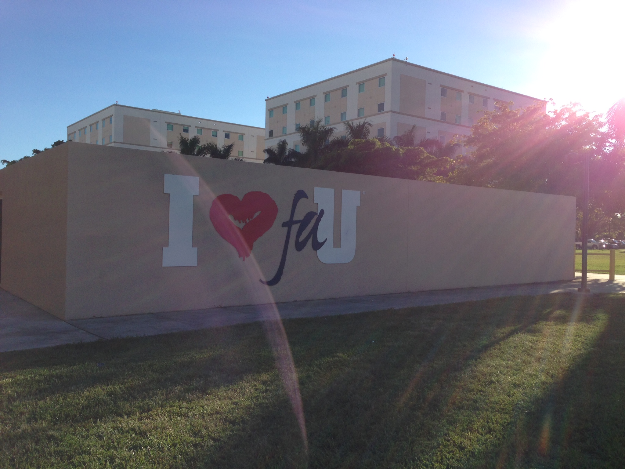 FAU's I Heart FAU Sign